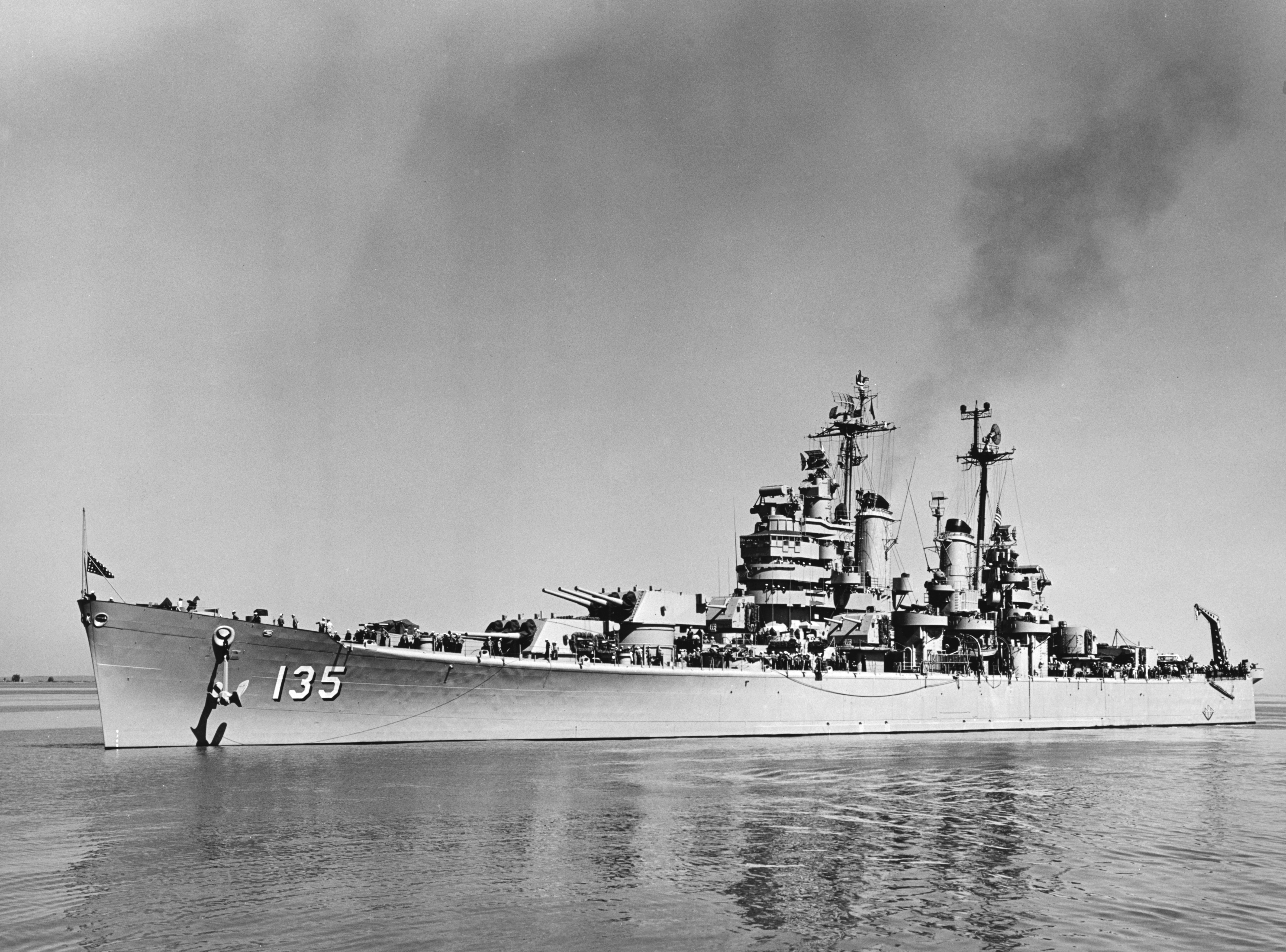 The U.S. Navy heavy cruiser USS Los Angeles (CA-135) returns to the Korean theater for its second tour of combat duty with UN Naval Forces, 13 October 1952. Note that the ship's Jack and National Ensign are flying at half-mast.